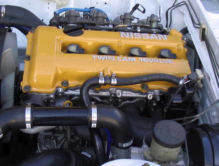 S13 SR20DET NS Mounting, Coil On Plug (custom yellow paint) I took this picture of my friend's engine..